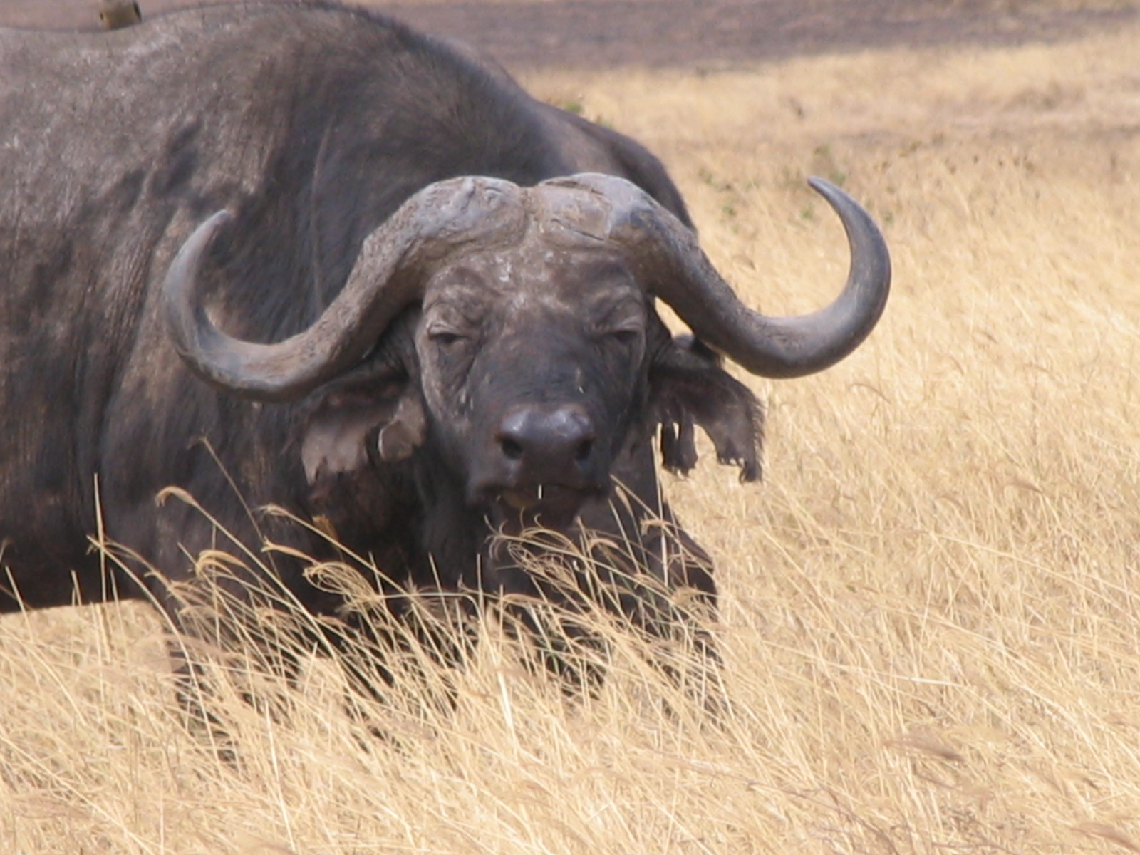 Ngorongoro Conservation Area (United Republic of Tanzania)